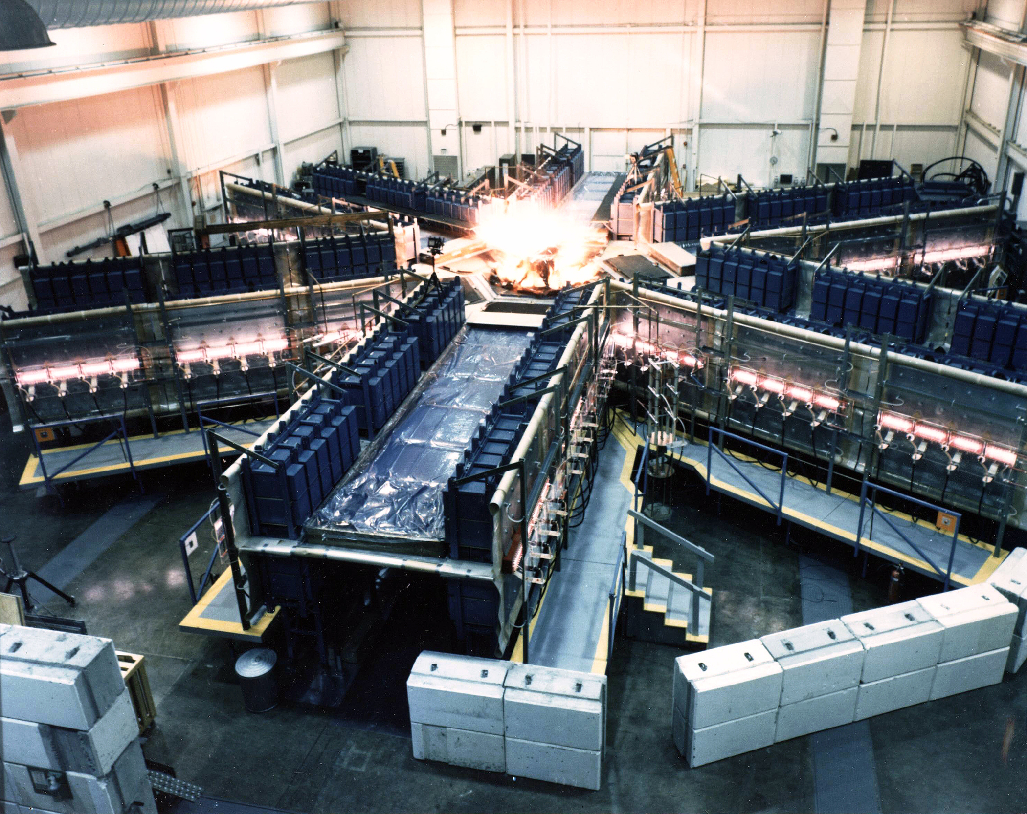 Research into the military applications of high-energy pulsed power systems is conducted in the 34,261-square-foot Air Force Research Laboratory’s Directed Energy Directorate, High Power Systems Facility. The facility houses Shiva Star, the Air Force’s largest pulsed-power system. Shiva Star stores nearly 10 million joules of energy (equal to 5 pounds of TNT). It produces a pulse of 120,000 volts and 10 million amps in one-millionth of a second to produce a power flow equivalent to a terawatt. Shiva Star has evolved from a 1 megajoule system in 1975, a 2 megajoule system in 1979, to its final form as a 10 megajoule system in 1982. Shiva Star has been used over the years for many different types of experiments such as pulse compression to increase energy in the pulse, plasma liner implosion for production of x-rays, solid liner implosions to compress matter to high density and pressure, compact toroids for generating high-energy plasmas, and simulation of explosive pulsed-power generators.